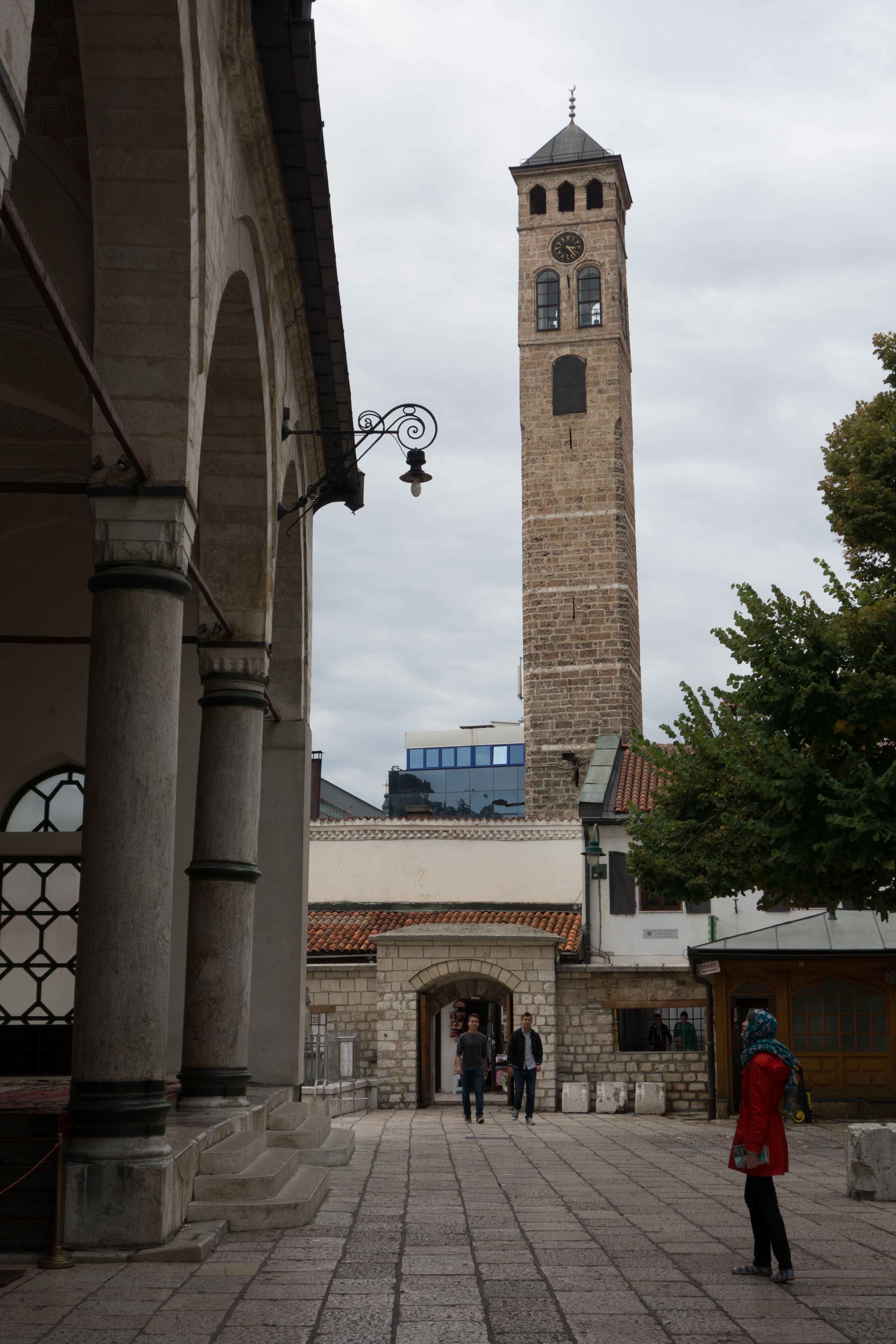 (Untitled)